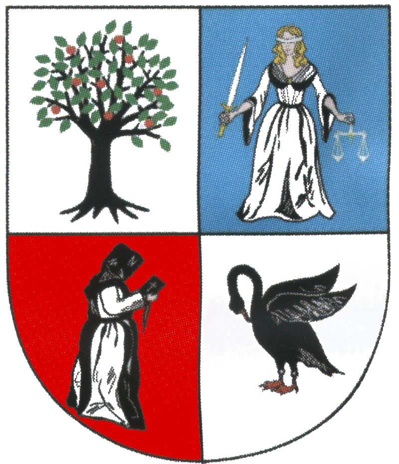 This file depicts the coat of arms of a German Körperschaft des öffentlichen Rechts (corporation governed by public law). According to § 5 Abs. 1 of the German Copyright law, official works like coats of arms are in the public domain. Note: The usage of coats of arms is governed by legal restrictions, independent of the copyright status of the depiction shown here. Coat of arms of Jahnsdorf/Erzgeb.